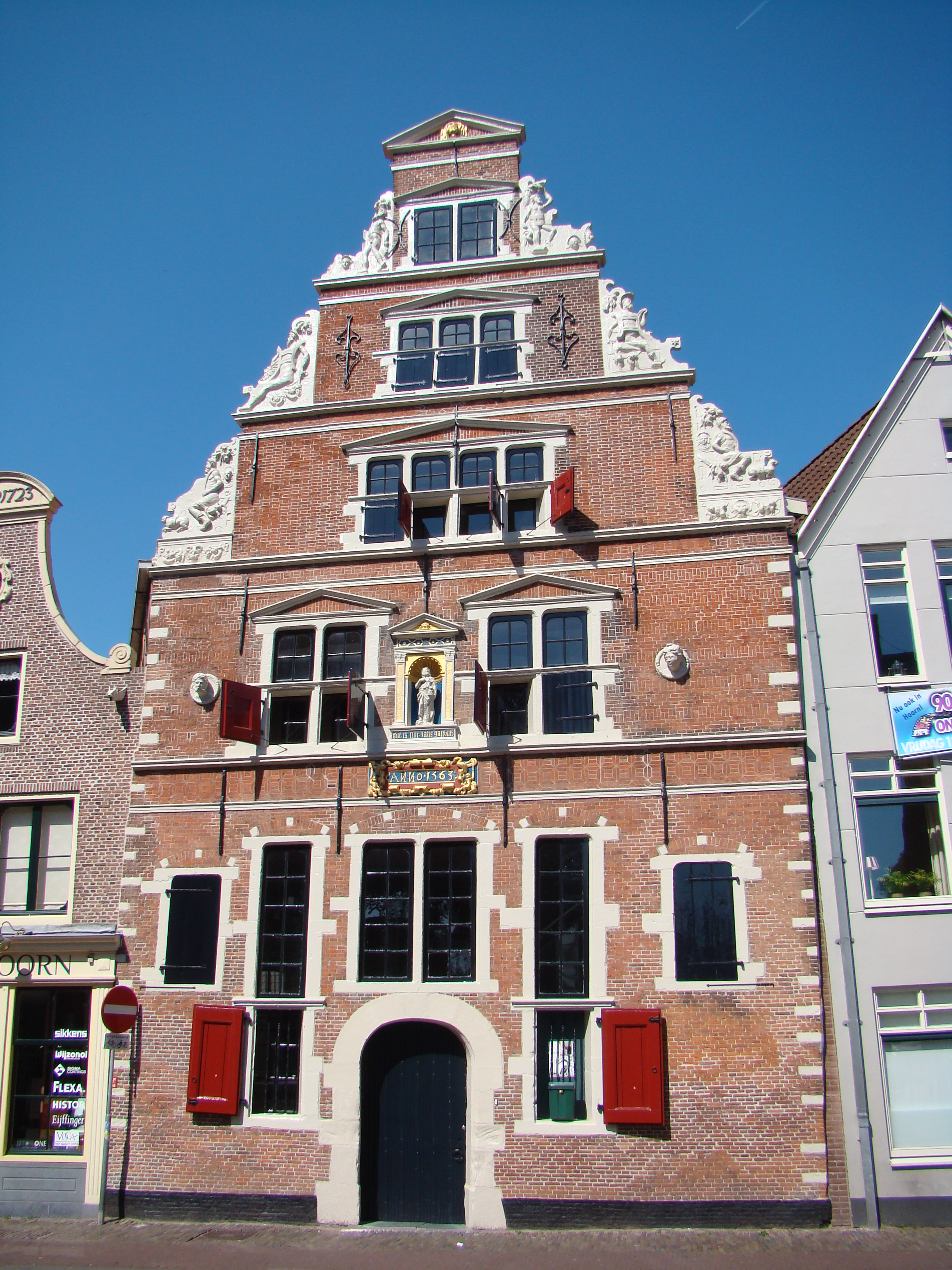 Buildings in Hoorn (Netherlands)